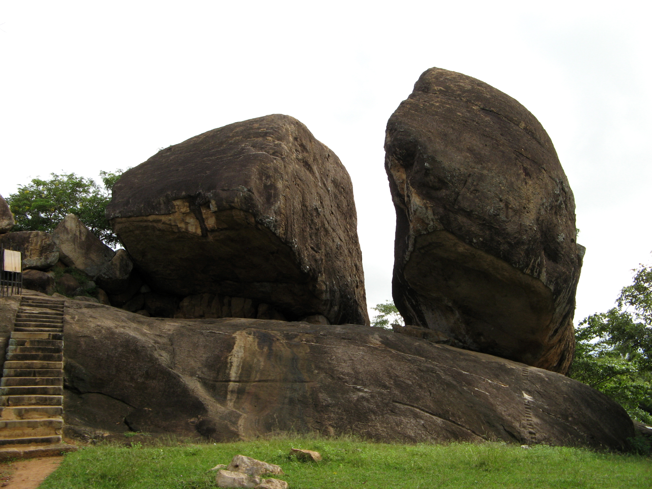 Vessagiri Forest Monastery, Anuradhapura, Sri Lanka These rock shelters were donated to Buddhist monks to use as dwellings, starting in the reign of King Devanampiya Tissa (mid-3d century BC). The site was expanded much later, during the reign of King Kasyapa (473 - 491 AD), at which time it became home to about five hundred monks. Today's visitor sees only the bare stones - and not all of those, since much of the rock was later carted away and reused elsewhere. But when occupied, the dwellings were finished using wood and other perishable materials.